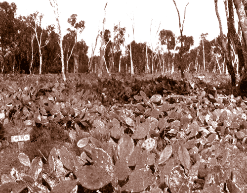 Australia before Cactoblastis invaded